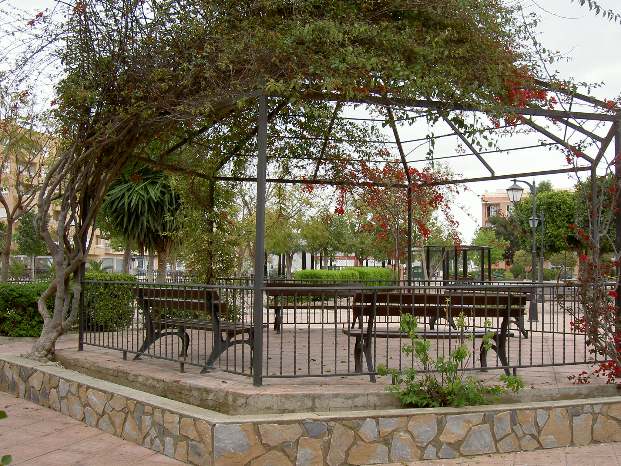 "Parque de la Naturaleza", Almoradí